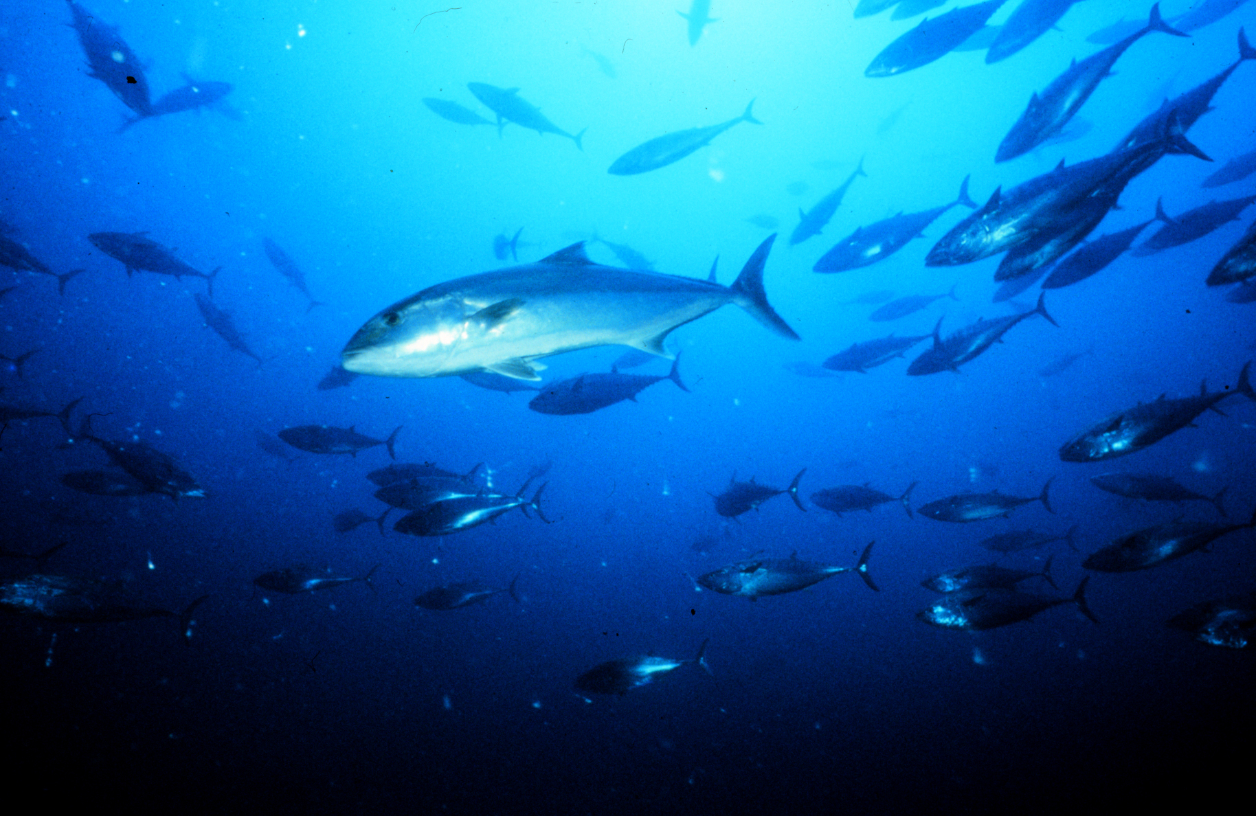 Greater amberjack, Seriola dumerili. 30/01/2008 - en: File:Seriola dumerili.jpg c: File:Seriola dumerili.jpg.